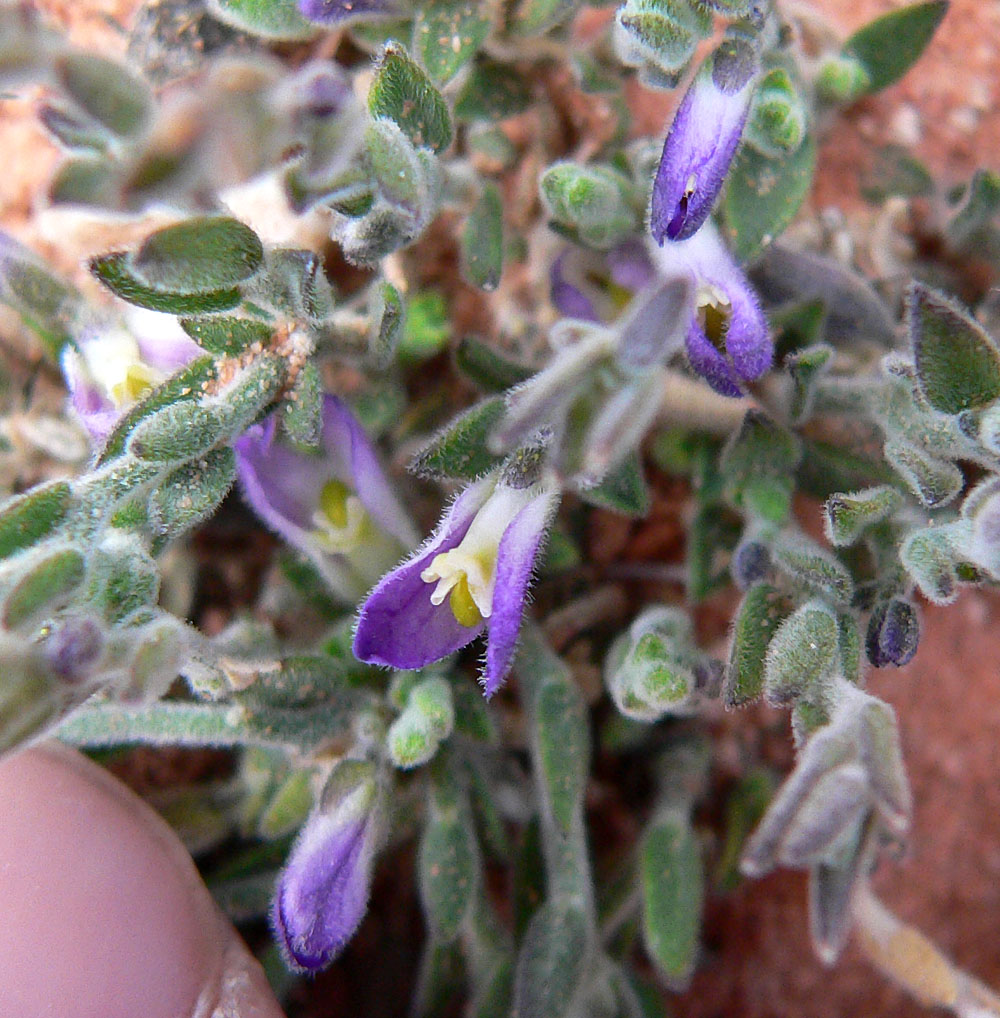 Polygala macradenia var. macradenia in the sandstone outcroppings immediately to the north of Ash Creek Spring, Calico Basin, Spring Mountains, southern Nevada